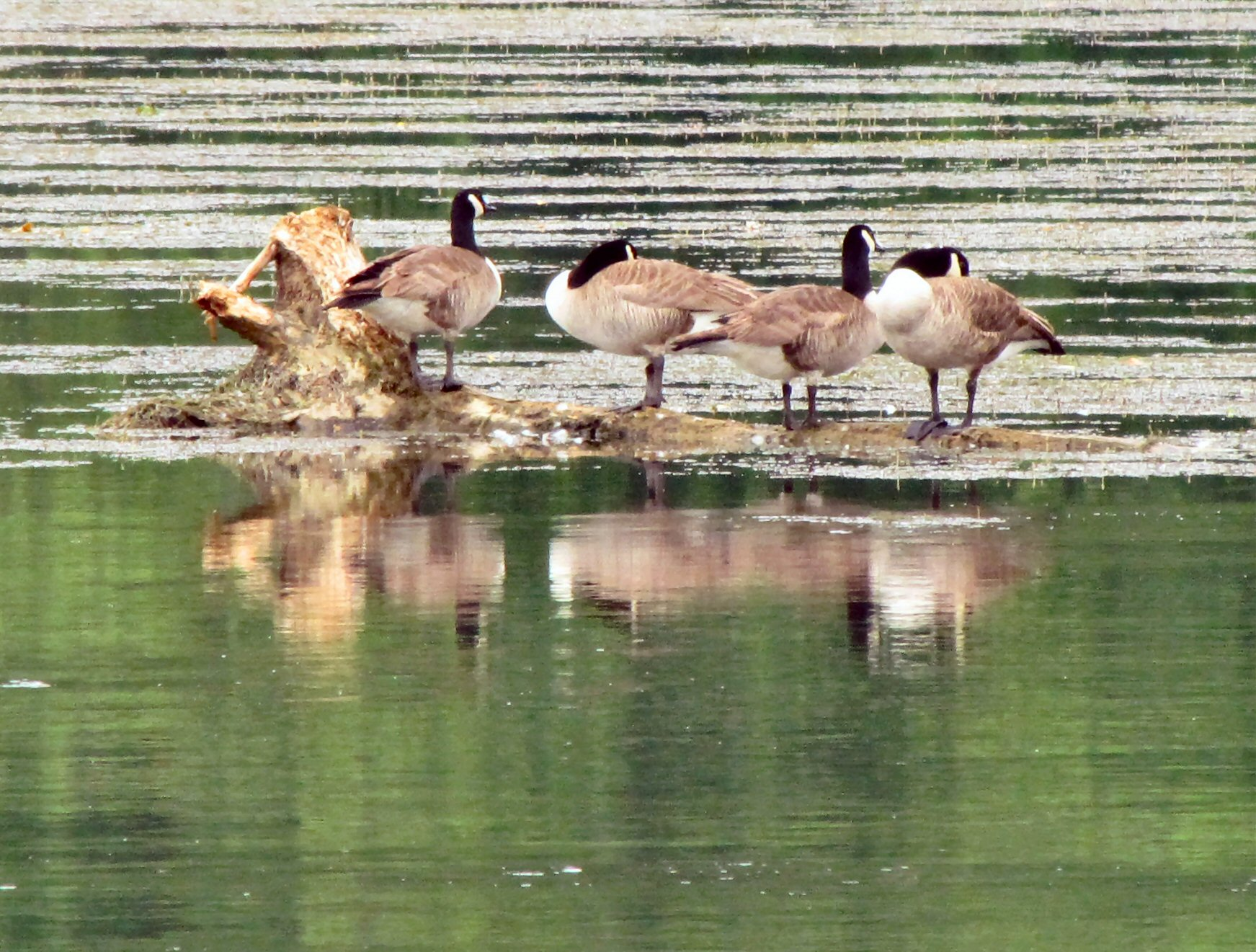 Canadian geese resting on a downed tree in the French Broad River at Seven Islands State Birding Park in Knox County, Tennessee, United States